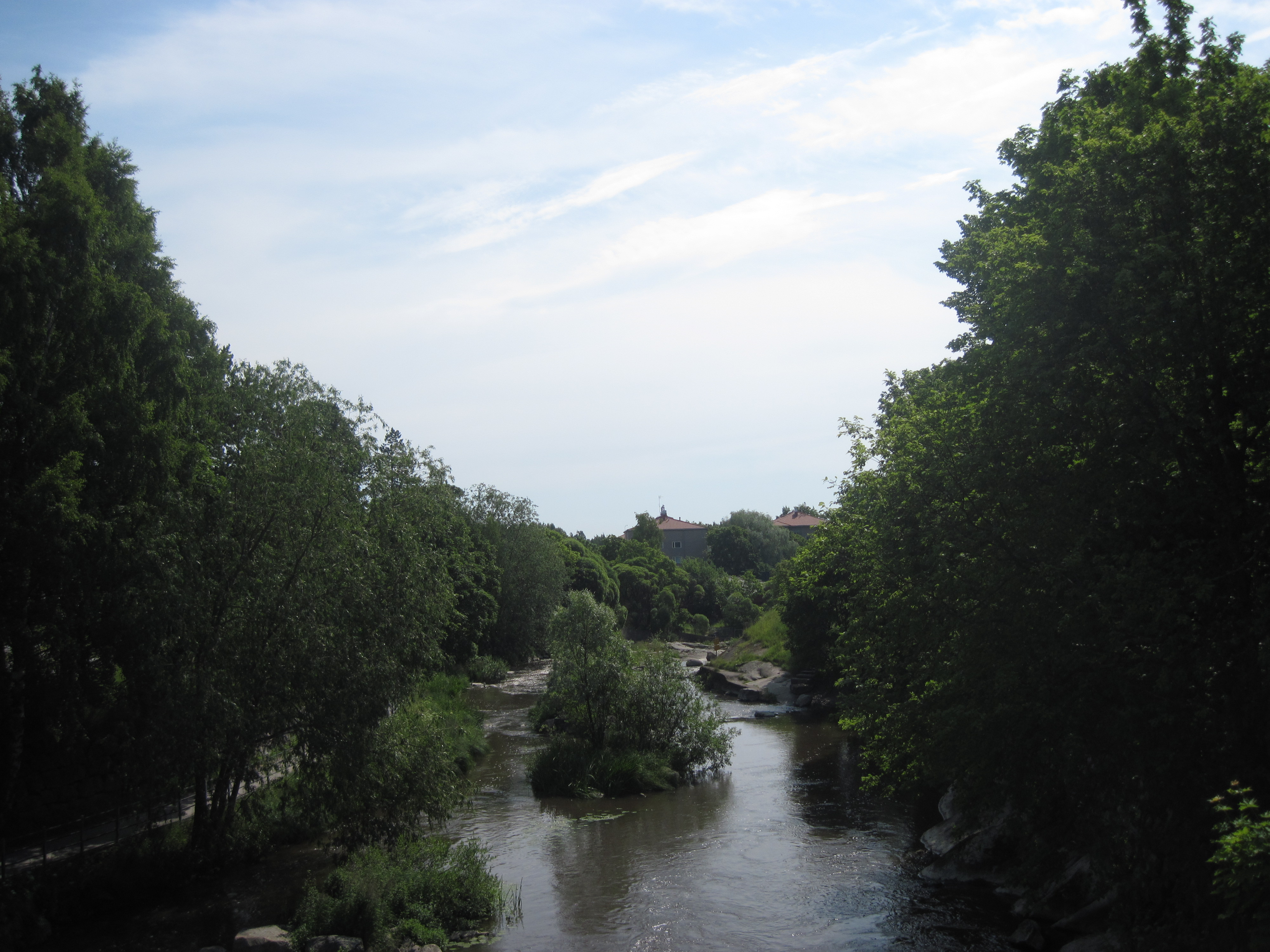 Vanhankaupunginkoski Rapids (Eastern branch), Helsinki, Finland